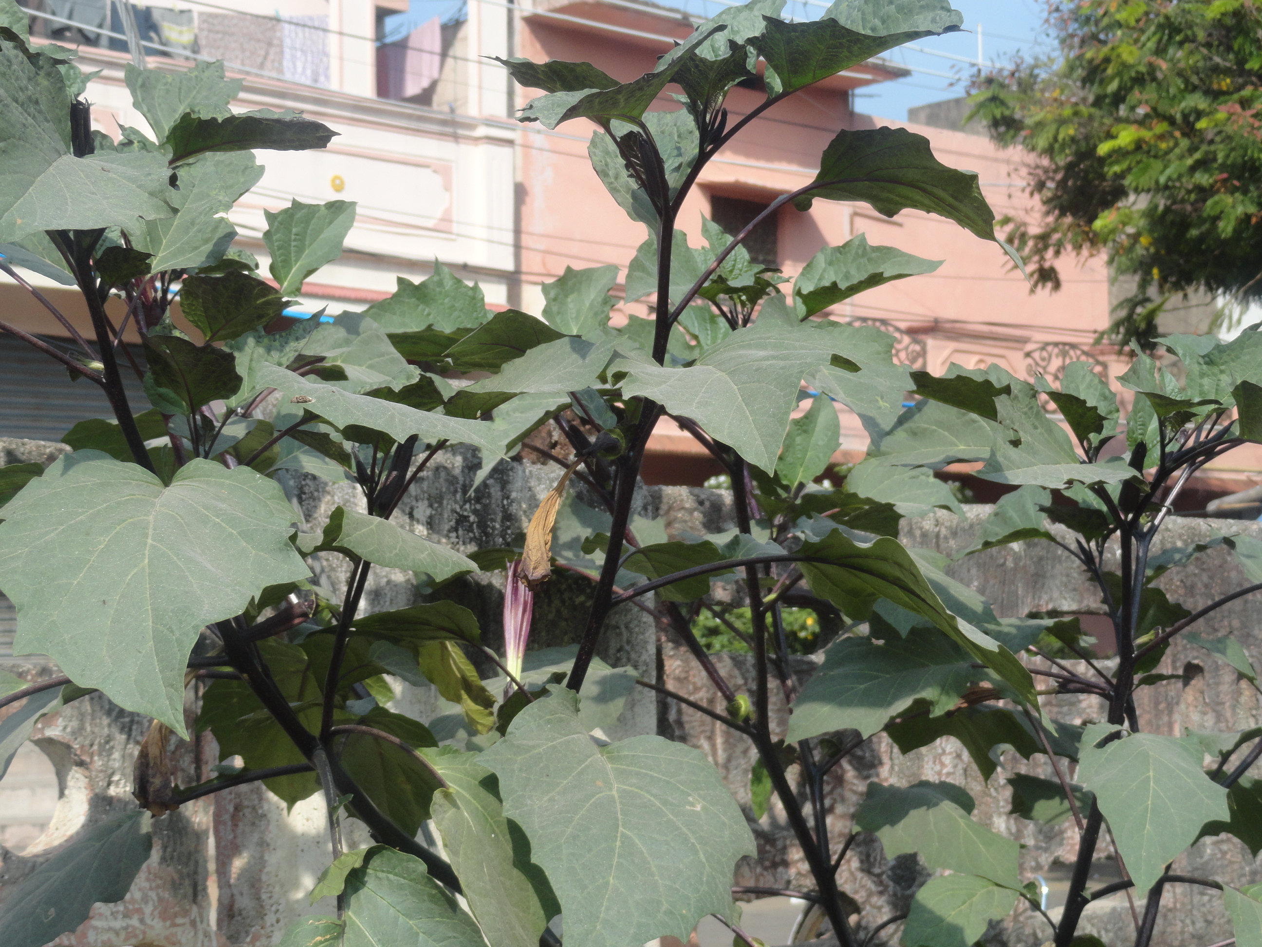 కాయలతో నల్ల ఉమ్మెత్త చెట్టు